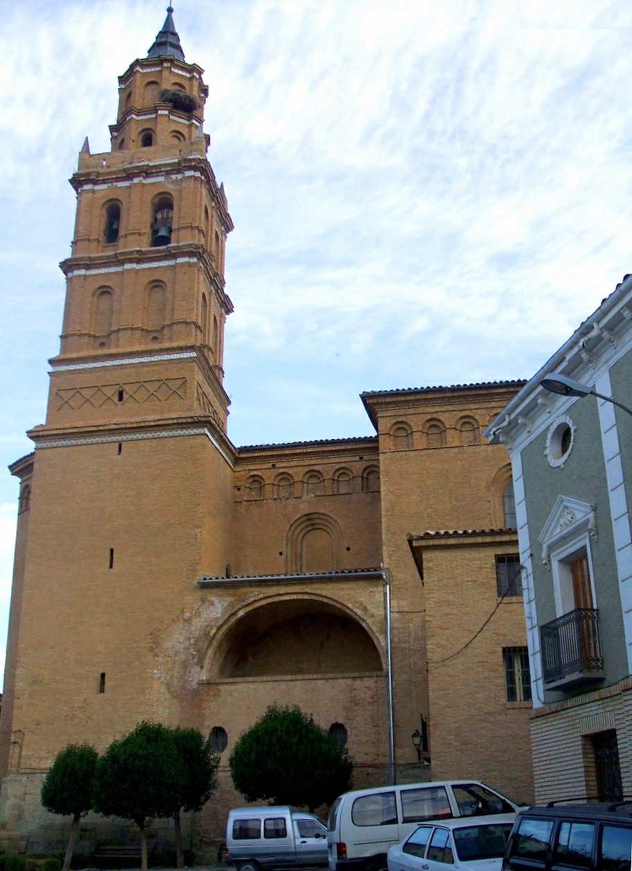 Iglesia de San Esteban, en Arguedas (Navarra, España)